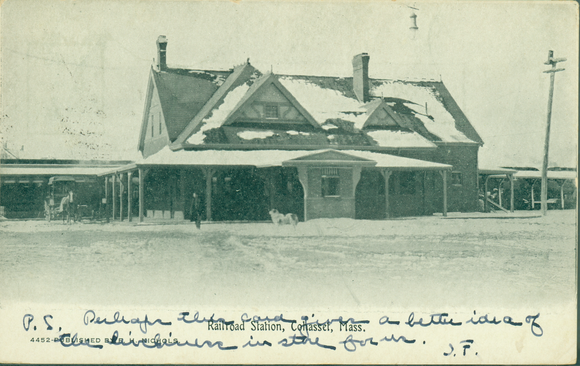 Early undivided back postcard of Cohasset station